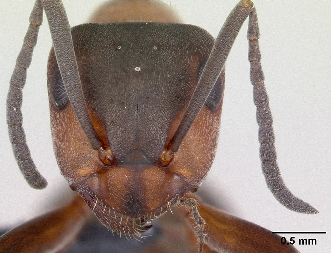 Head view of ant Formica rufa specimen casent0173862.